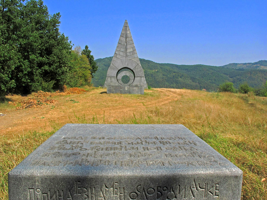 Popina Memorial Park.